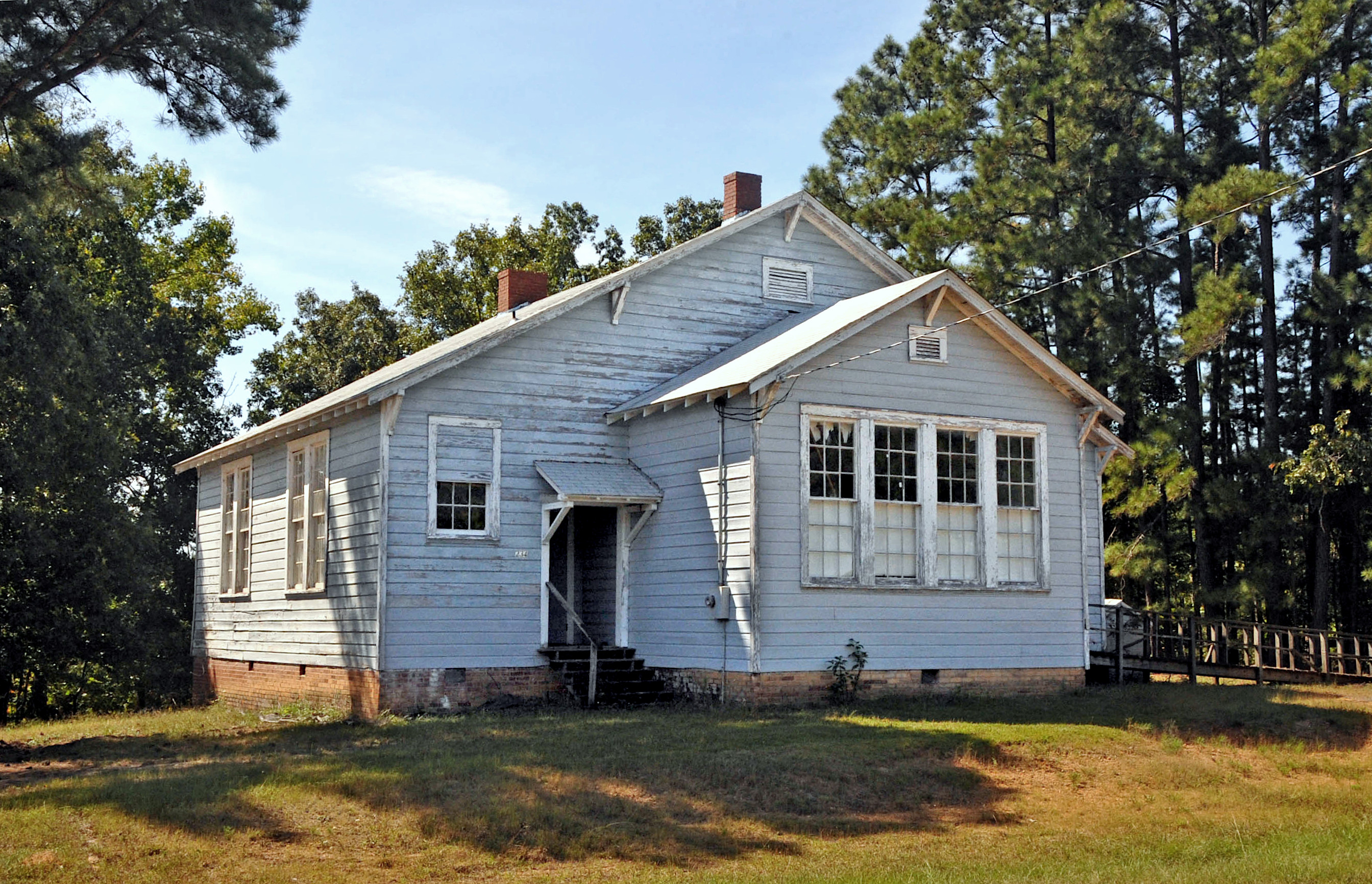 Built circa 1830; bungalow/craftsman style; black rural school